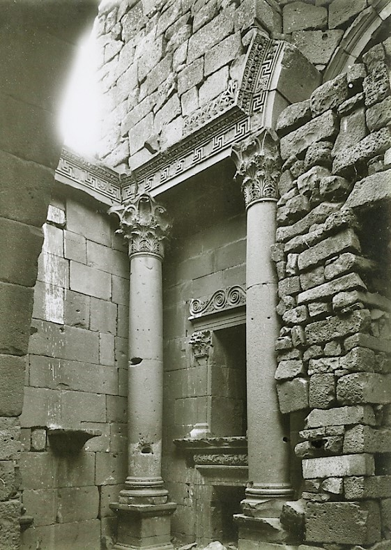 Ancient temple, Sanamayn Hauran-Liste 1895: Sanamen, alter Tempel; Is-Sanamen (von Oppenheim); Sanamein; Sanamein. Alter Tempel (Tagebuch H.B.); Südsyrien, A.s-.sanamain. Tychaion, Cella, SO-Ecke (Dr. K. Freyberger; DAI, Damaskus)